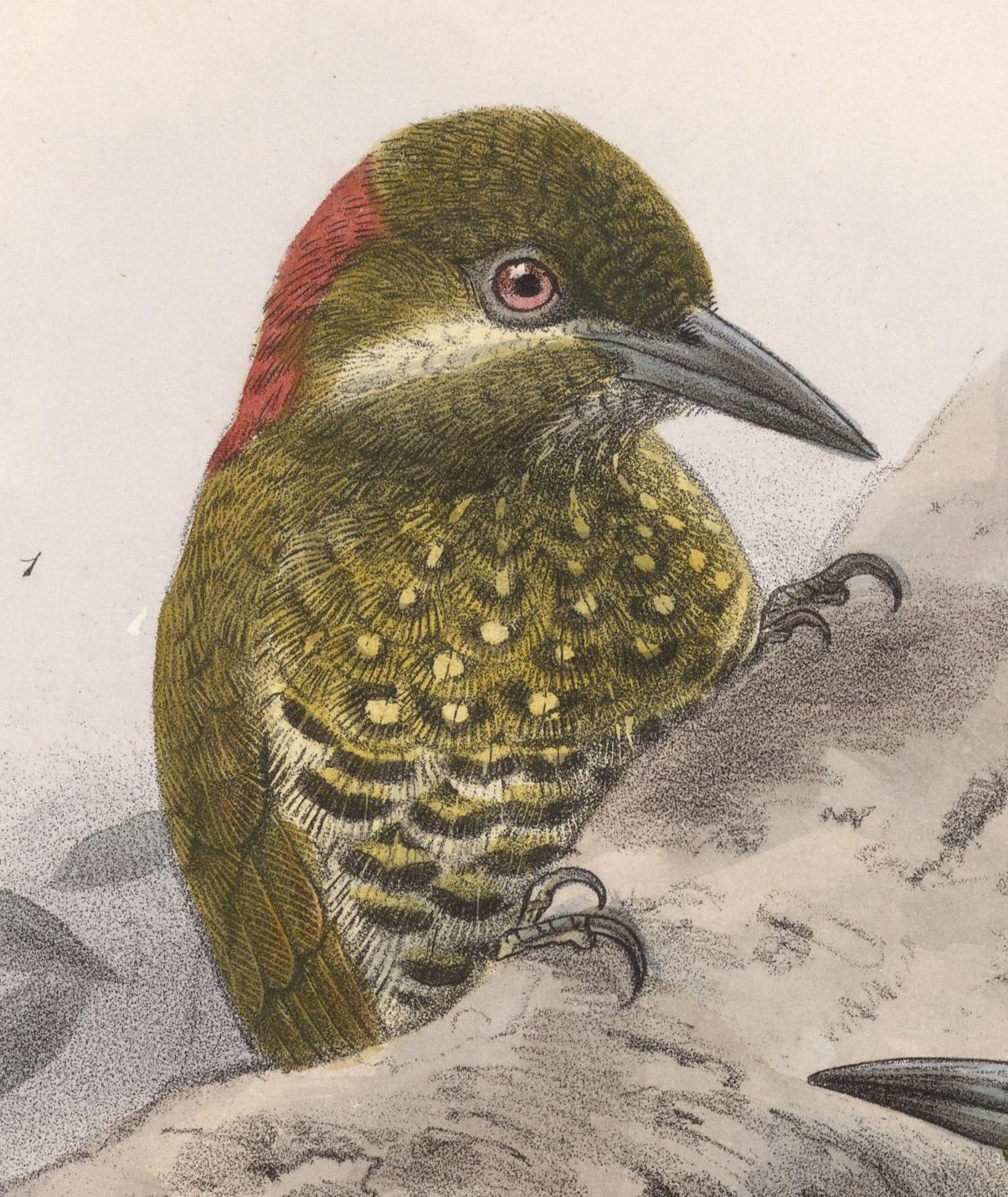 « Chloronerpes callopterus » = Piculus callopterus (Stripe-cheeked Woodpecker)